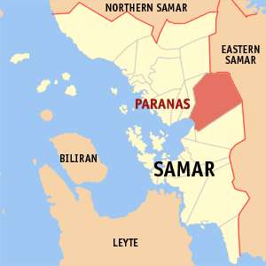 Map of Samar showing the location of Paranas